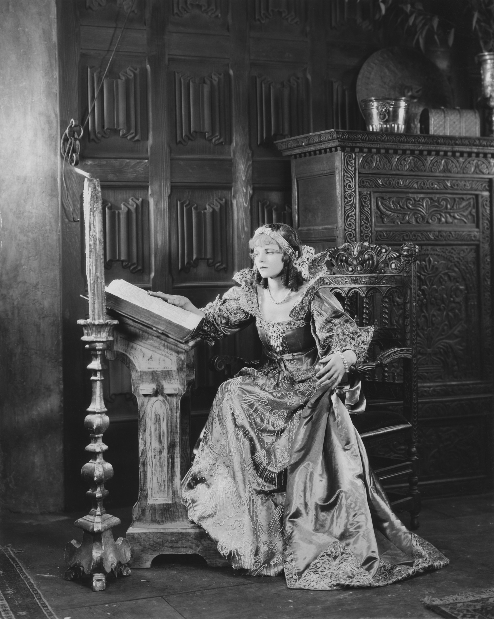 Vera Reynolds in The Road to Yesterday (1925) directed by Cecil B. de Mille.